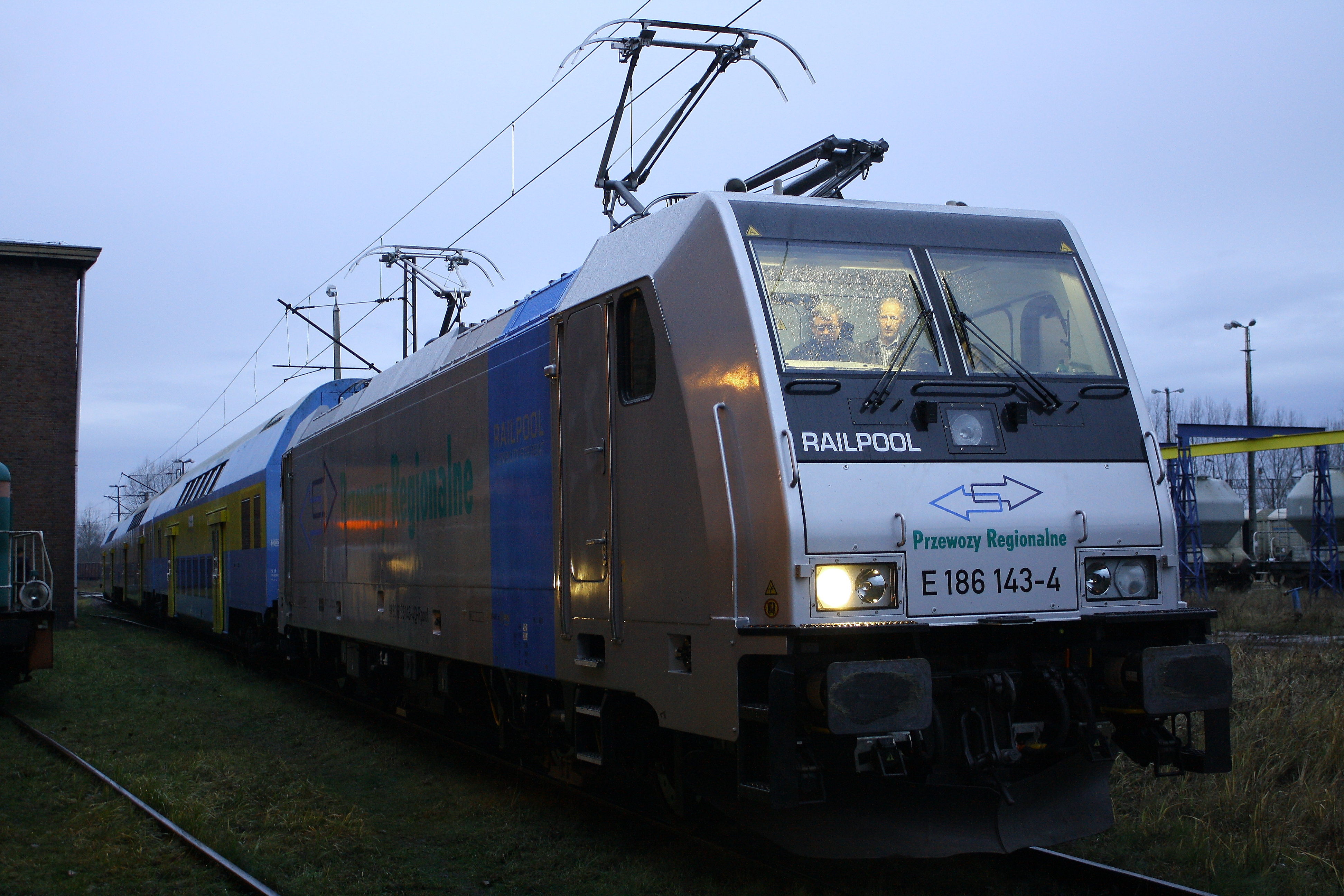 Bombardier Traxx E 186 143-4, Przewozy Regionalne, Torun Kluczyki, Poland